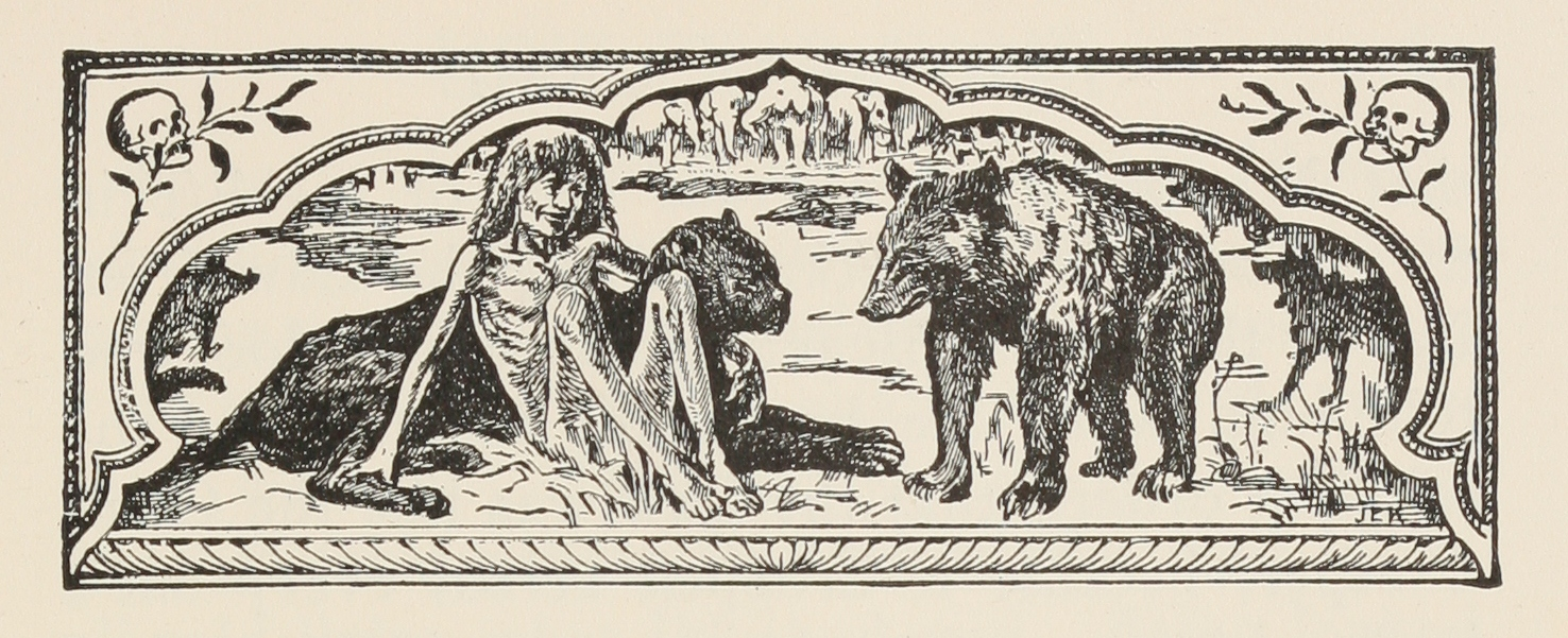 Title illustration of the chapter "How Fear Came".